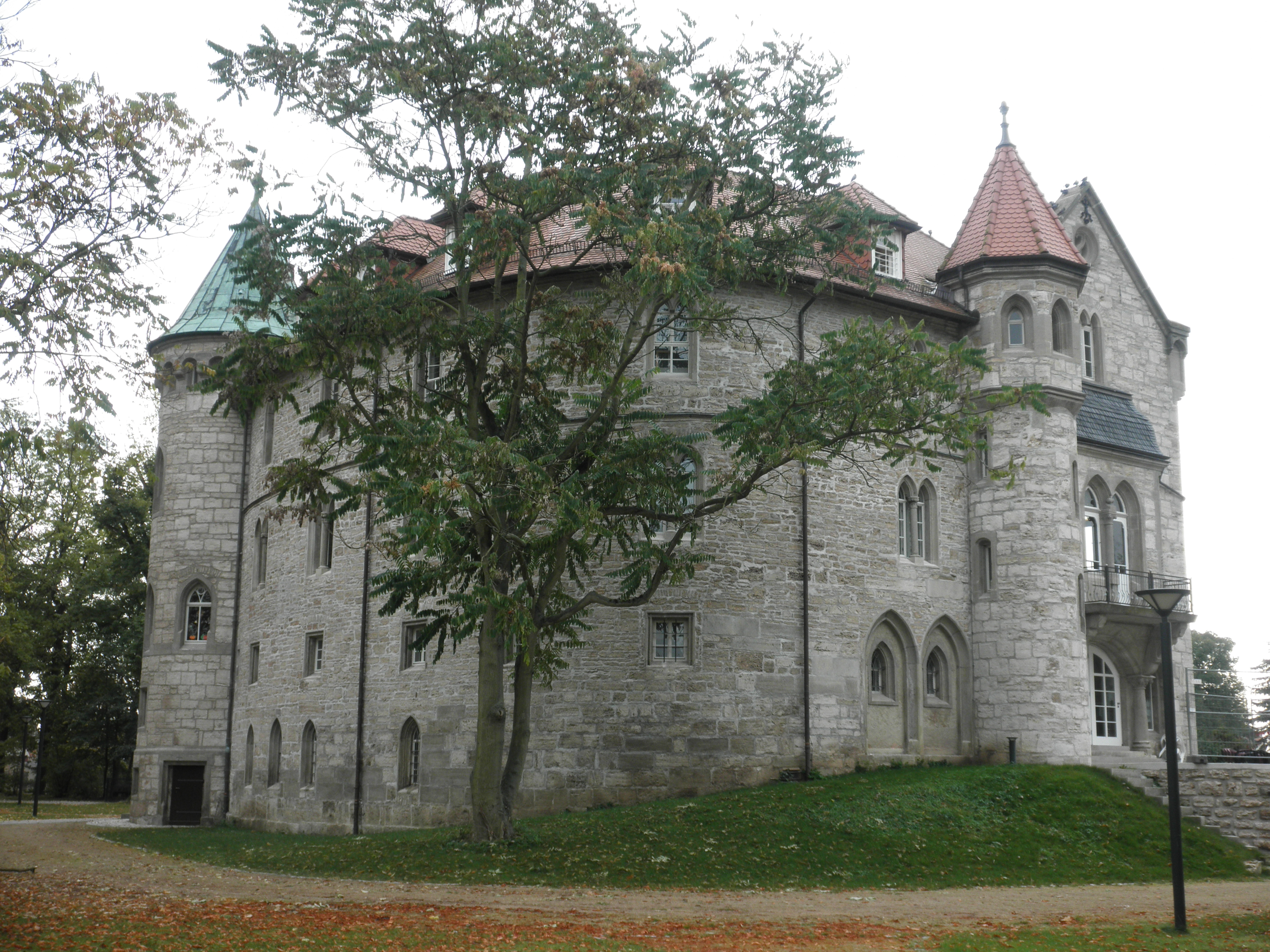 Castle in Altengottern in Thuringia